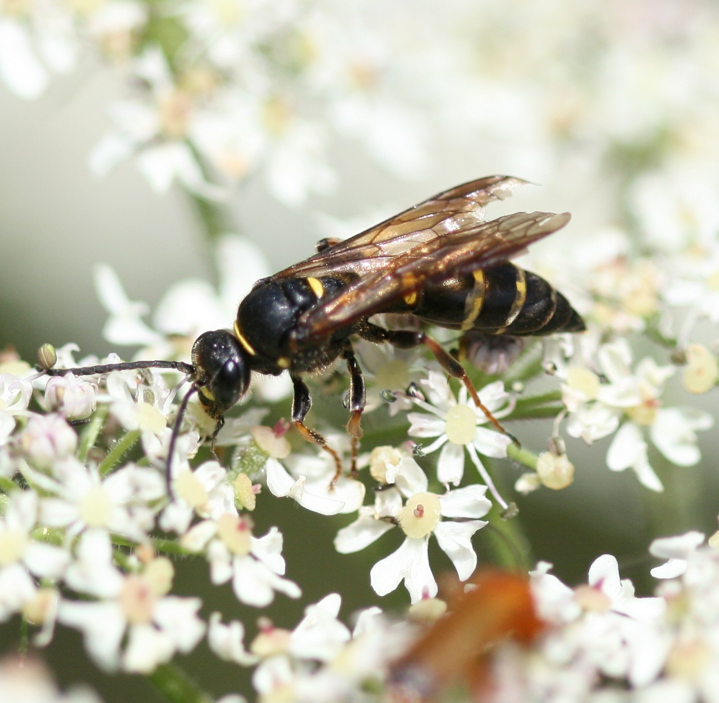 A hunter of spittlebug nymphs.